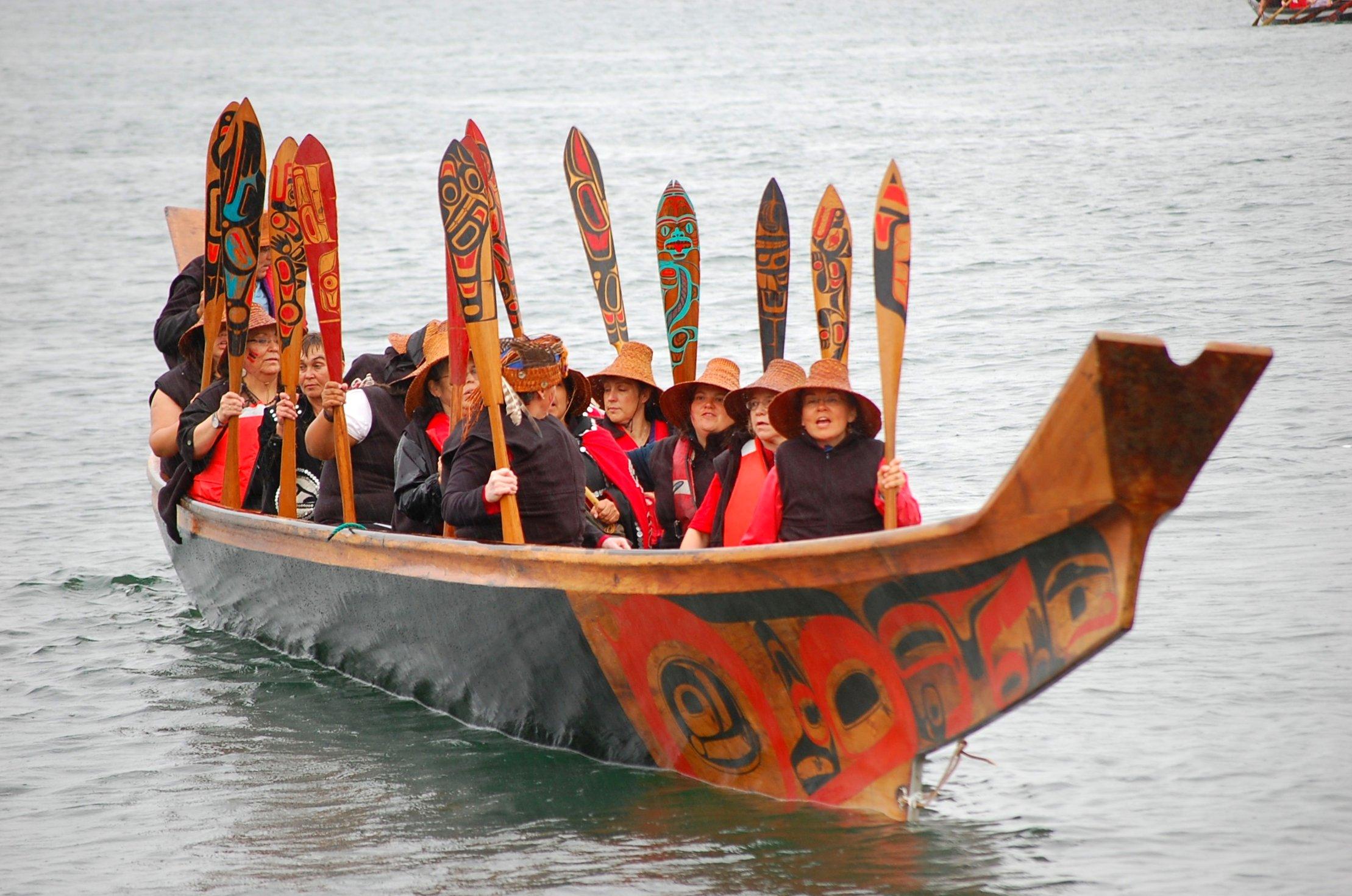 Canoe from Haida Gwaii - Queen Charlotte Islands